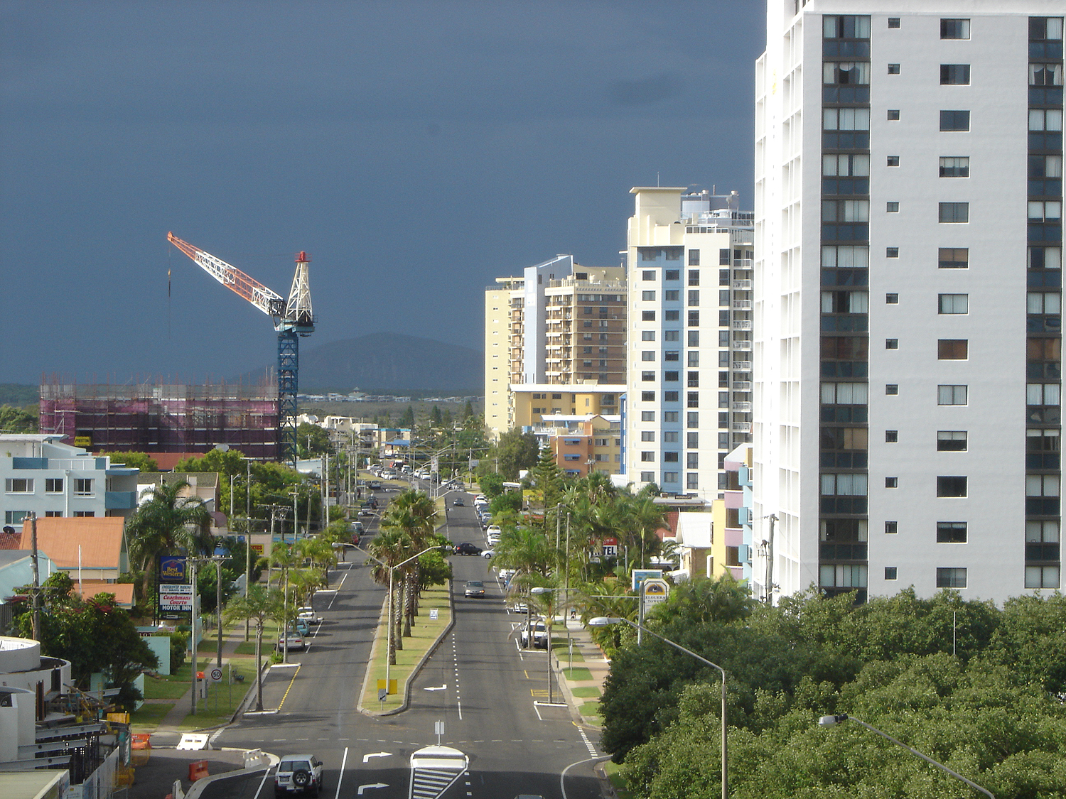 View from 603